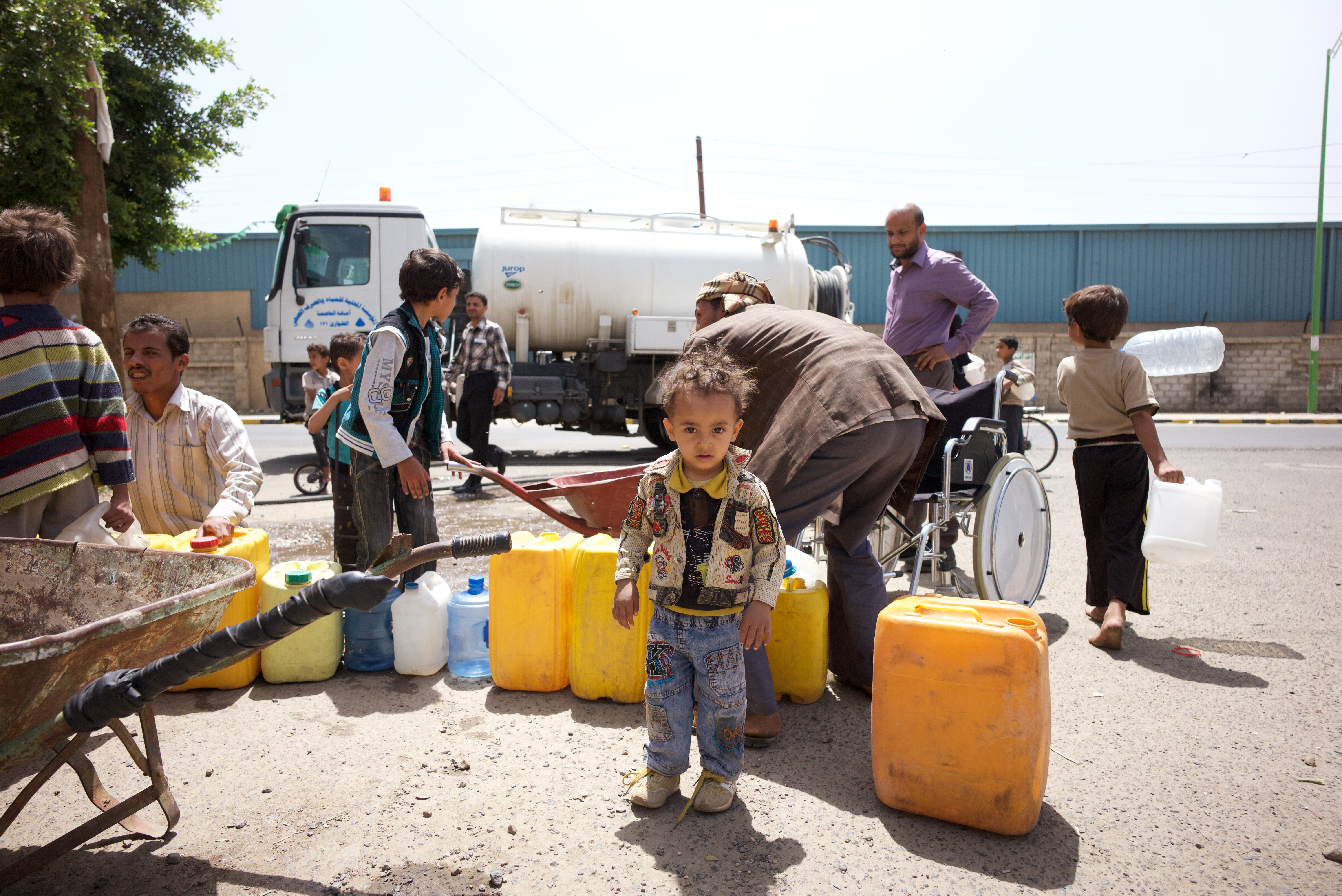 With fuel almost impossible to get hold of in Sanaa, the water authority could not operate the network, so UNICEF worked with the Yemen Petroleum Company to buy fuel and organise water trucking to the most vulnerable parts of Sanaa. We are doing similar work across all parts of the country. Without clean water waterborne diseases are a certainty and put children at risk.